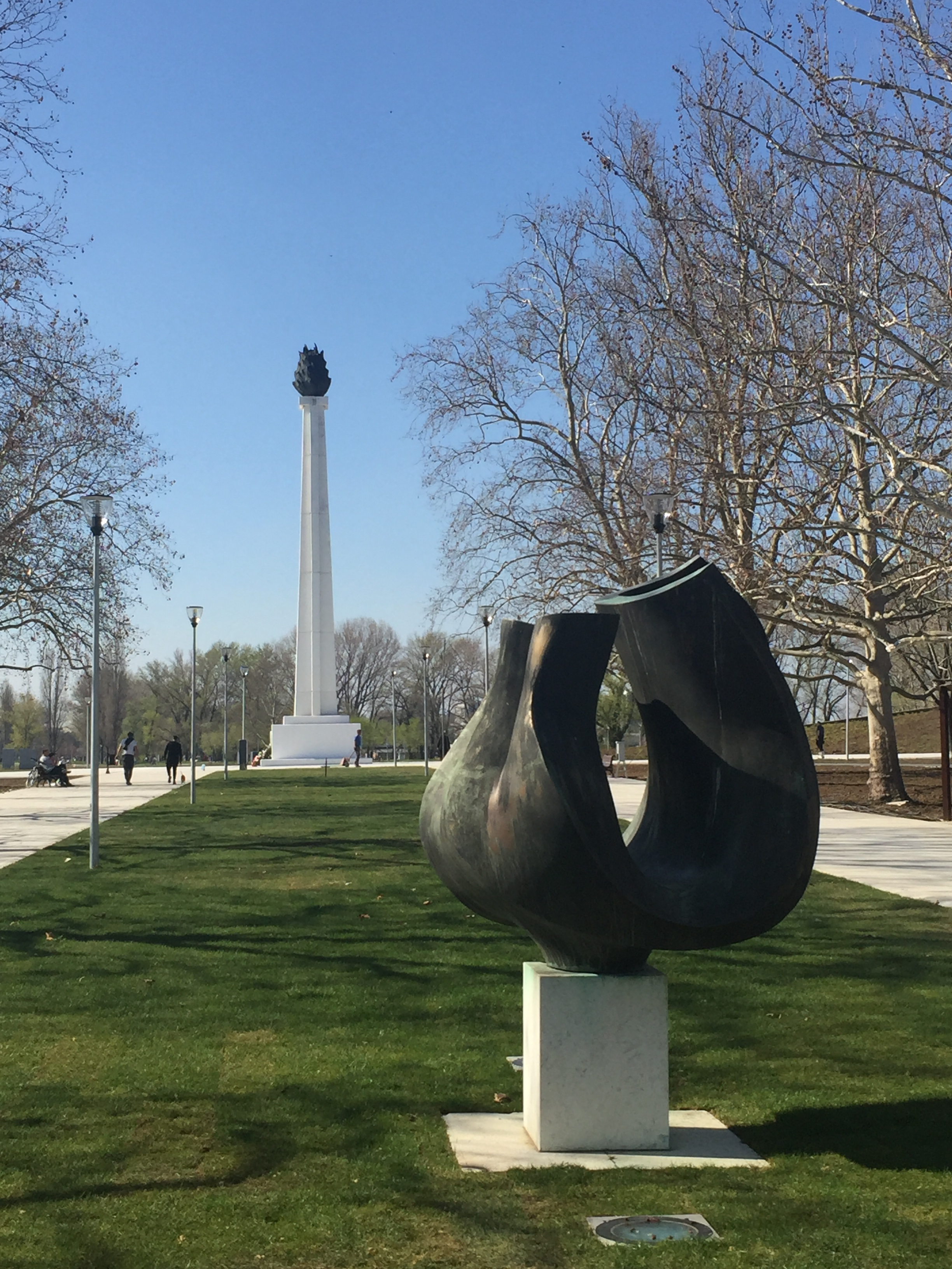 Open Form (Flame Flower) sculpture by Lidija Mišić (1974) at the Park of Friendship in New Belgrade following renovation in 2019. The park is dedicated to the principles of the Non-Aligned Movement i.e. peaceful coexistence. The Eternal Flame obelisk dedicated to victims of the NATO intervention in Yugoslavia (1999) can be seen in the background.